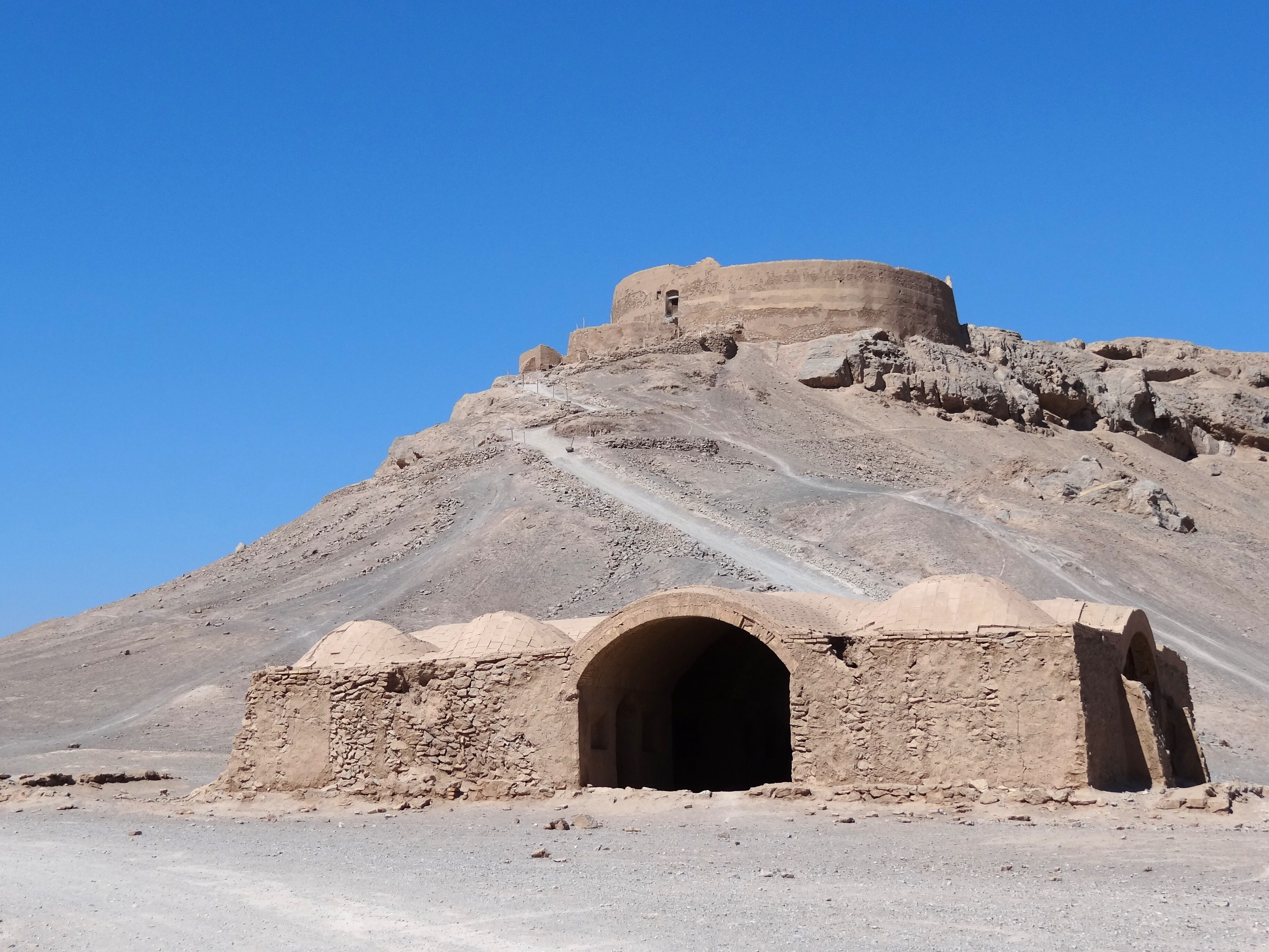 Towers of Silence - Zoroastrian Sepulchre - Outside Yazd - Central Iran